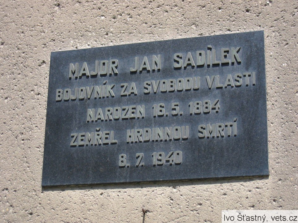 A bronze plaque in town Hlinsko (Czech republic) is dedicated to Mr.Jan Sadílek (* 1884 - † 1940). In time of the protectorate was a member of an illegal organization Defence of the Nation (ON). Jan Sadílek (as a member of ON) worked as a close associate of Joseph Balaban. Sadilek was also a publisher of the illegal magazine "V boj". He was an organizer of transitions of people across borders of protectorate into exile abroad.